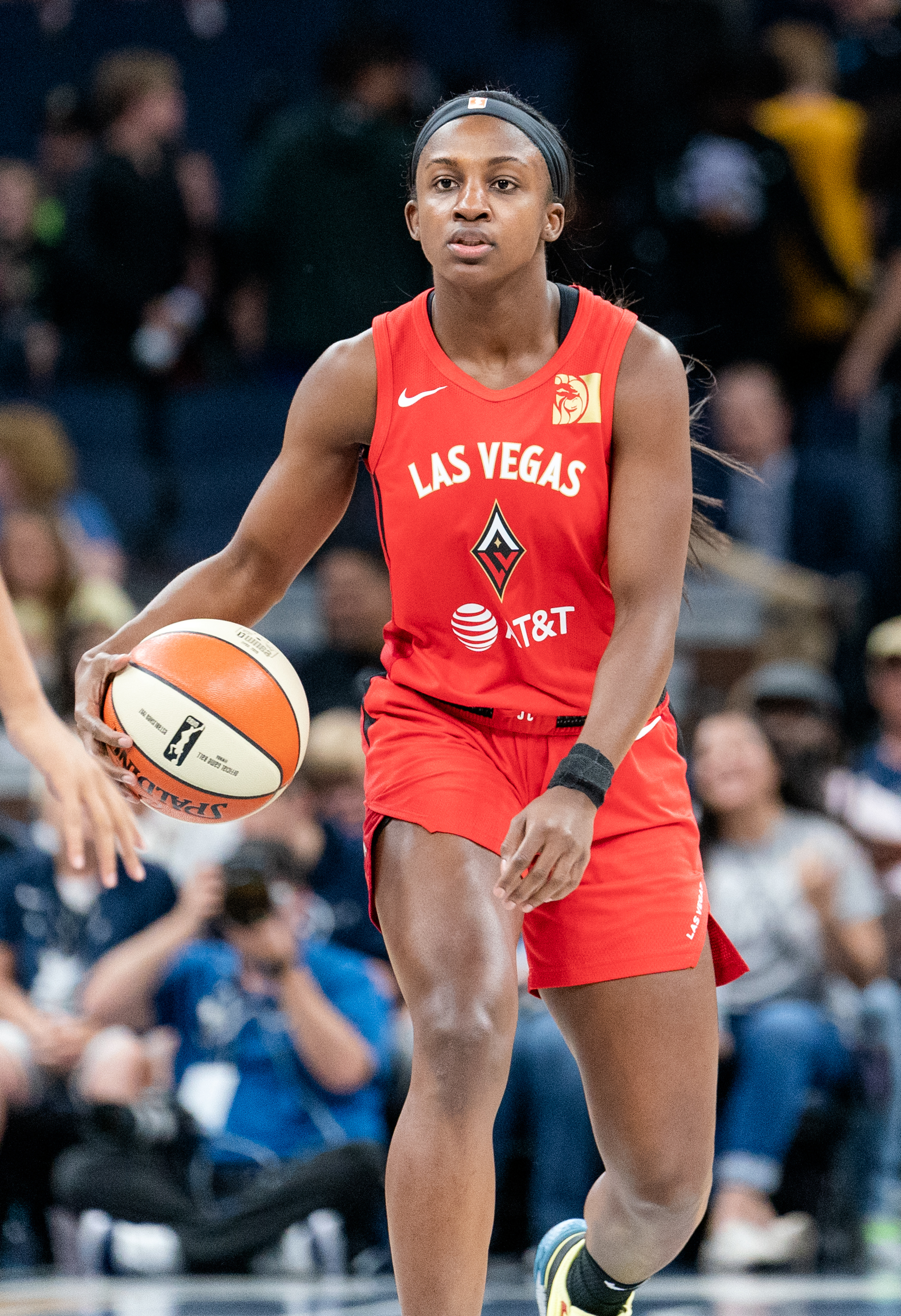 Minnesota Lynx vs Las Vegas Aces at Target Center in Minneapolis, MN on June 1 2019; the Aces won the game 80-75.